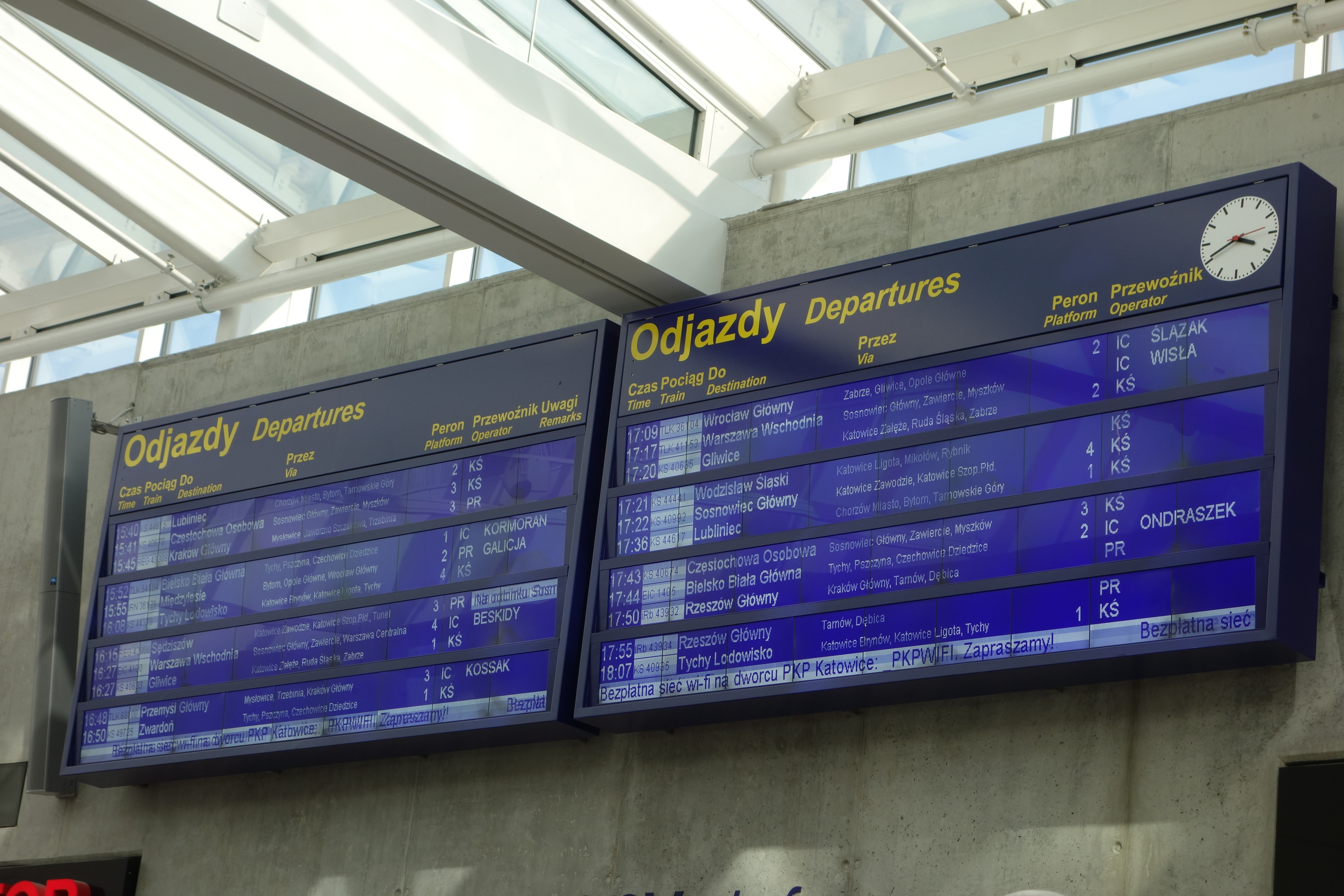 Katowice - tablice informacyjne LCD This photo was taken during Railway Wikiexpedition 2014 set up by Wikimedia Polska Association in cooperation with Fundacja Grupy PKP. You can see all photographs in category Wikiekspedycja kolejowa 2014. English | Polski | +/−